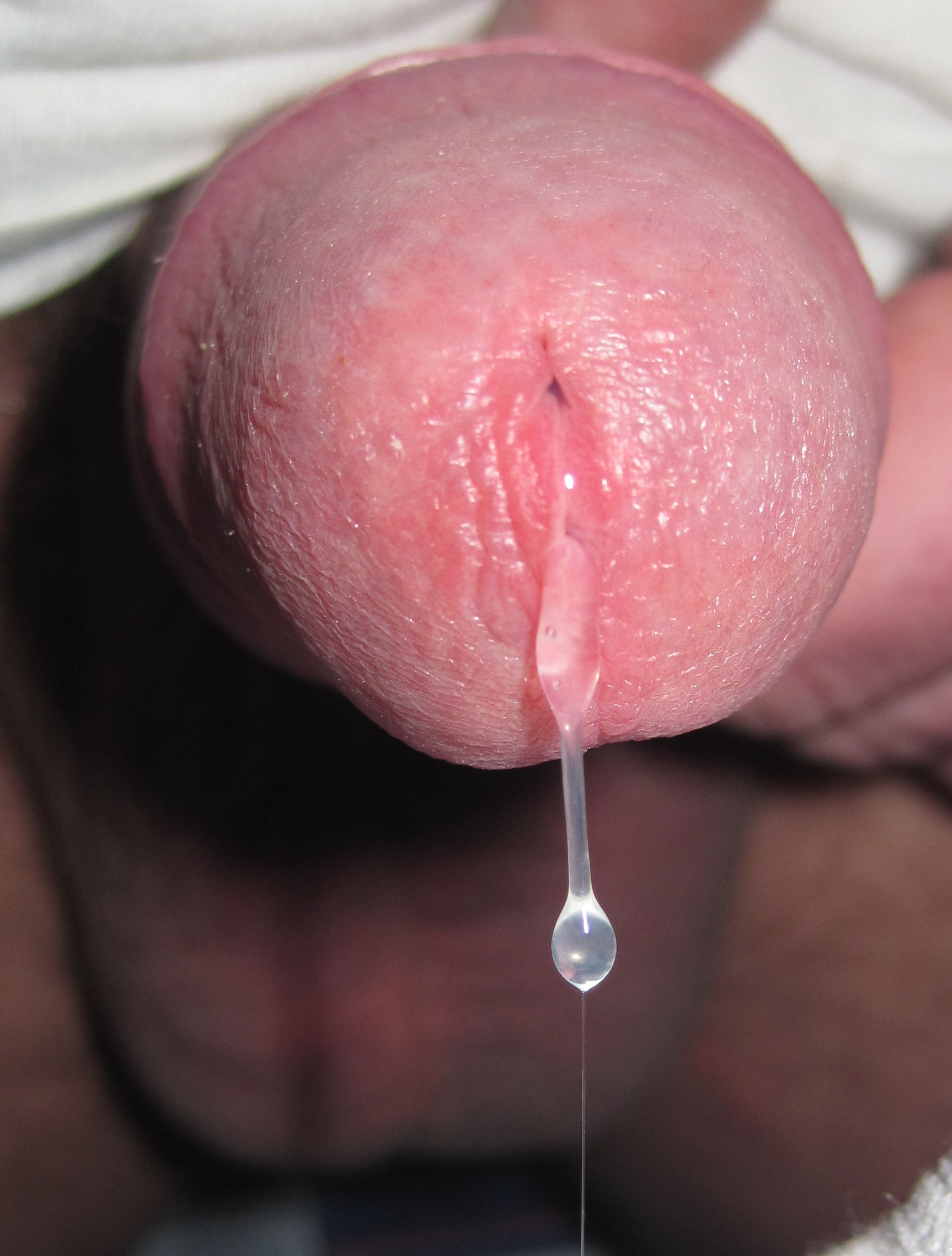 Pre-Ejaculate fluid. Cowper liquid